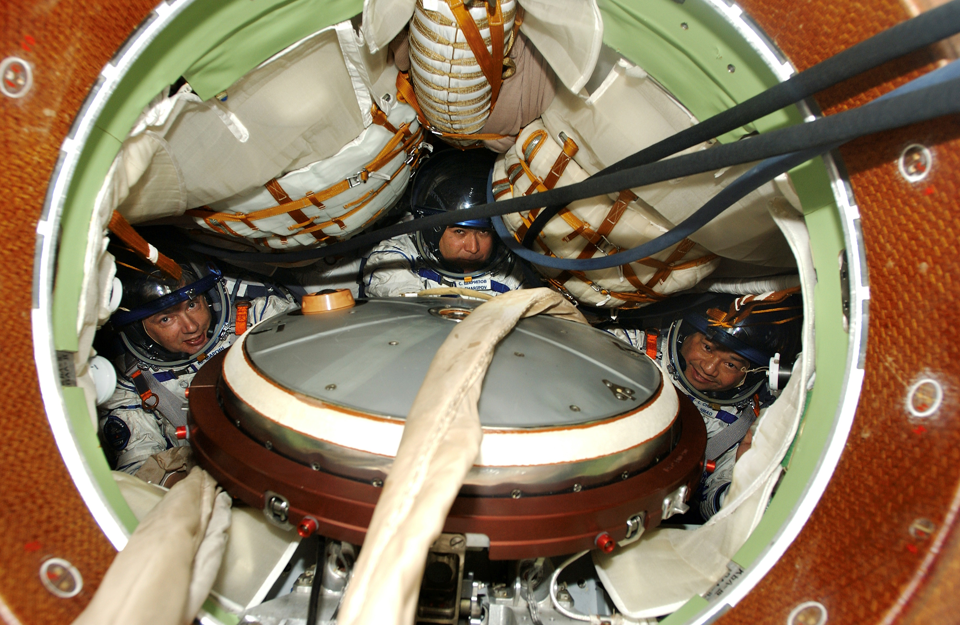 Astronaut Leroy Chiao (right), Expedition 10 commander and NASA International Space Station (ISS) science officer; cosmonaut Salizhan S. Sharipov (center), Russia’s Federal Space Agency Expedition 10 flight engineer and Soyuz commander; and Russian Space Forces cosmonaut Yuri Shargin (left) (Baikonur, Kazakhstan)